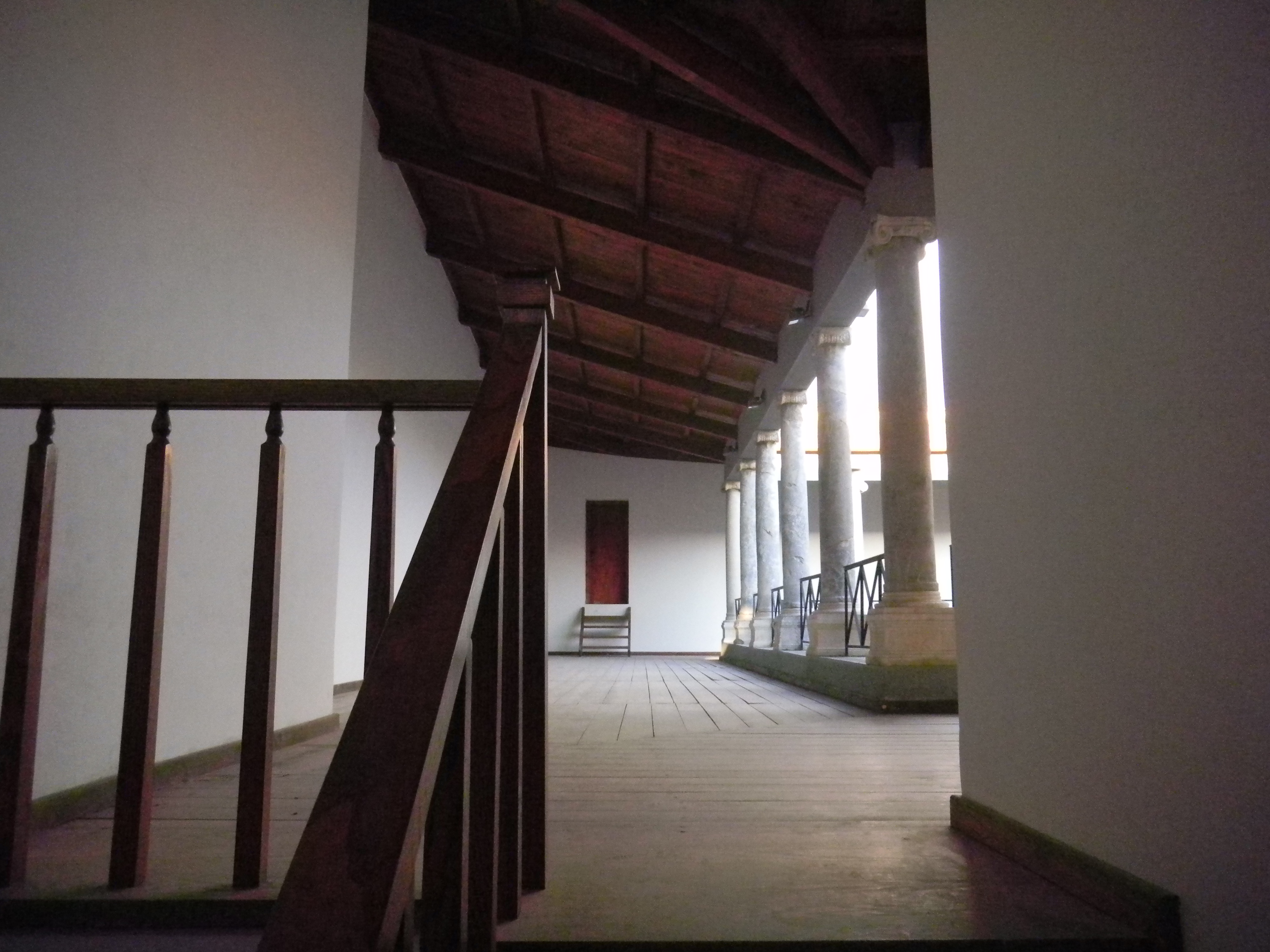 The restored Roman villa "Casa Romana" in Kos Town.